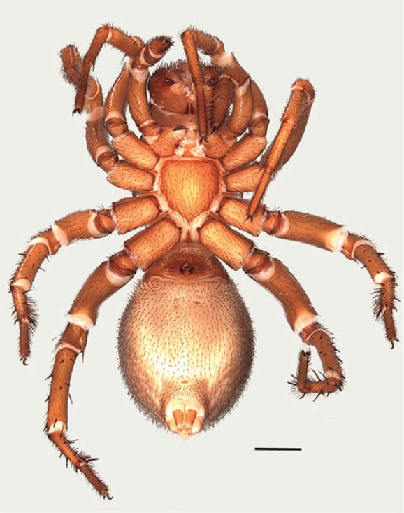 Palindroma morogorom, female, ventral view. Scale bar = 1 mm